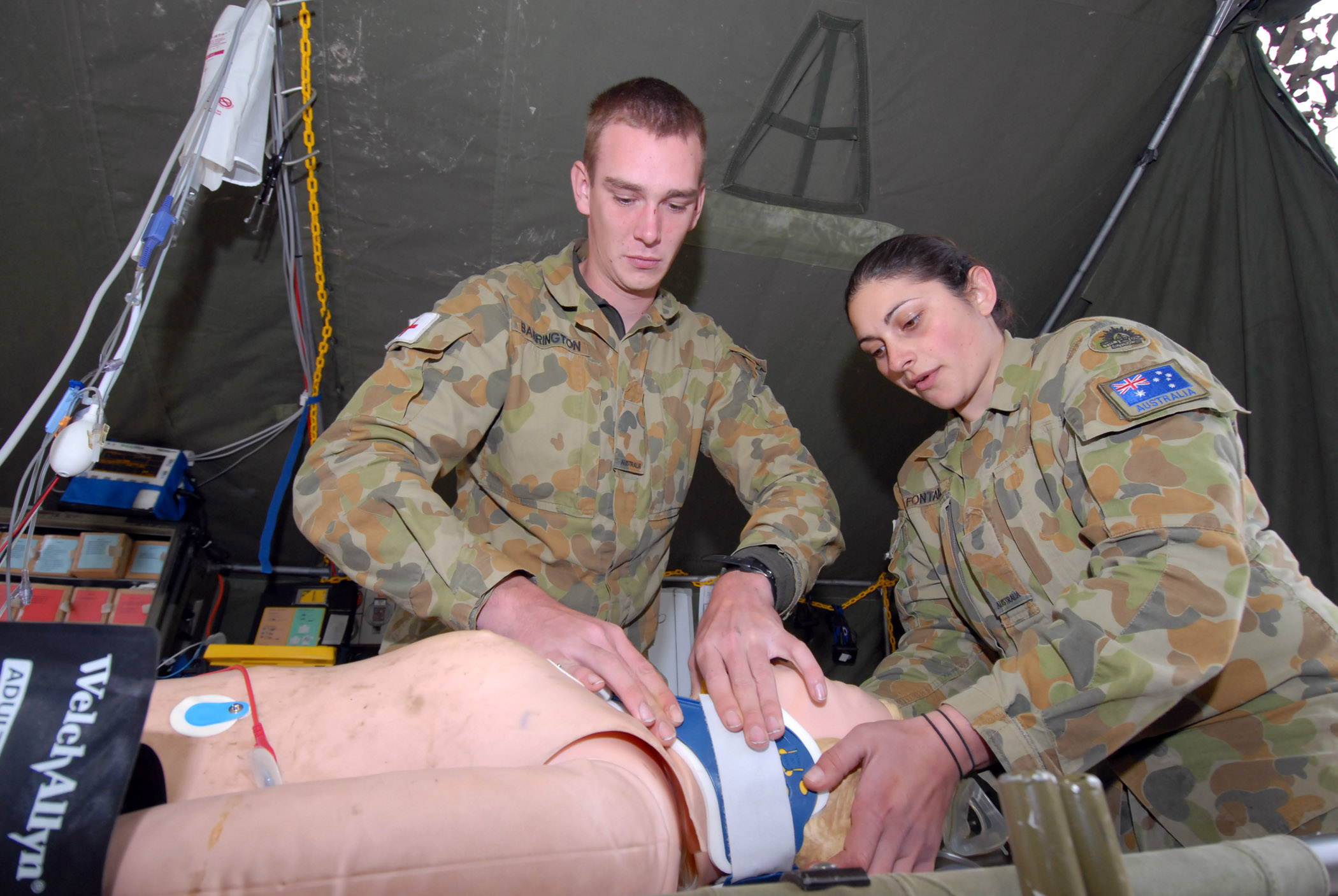 070620-N-4965F-011 SHOALWATER BAY, Australia (June 20, 2007) - Medics assigned to the Australian Defense Force, 1st Health Support Battalion, simulate treatment for a gunshot wound at the field hospital in the Shoalwater Bay Training Area Training Area, during exercise Talisman Saber 2007 (TS07). TS07 is a biennial field training exercise held between U.S. and Australian forces to demonstrates the U.S. and Australian commitment to our military alliance and to regional security while maintaining a high level of interoperability. U.S. Navy photo by Mass Communication Specialist 1st Class James E. Foehl